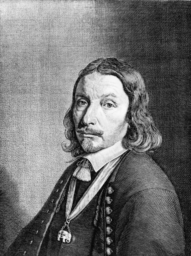 Engraving depicting Axel Urup (1601 - 1671)